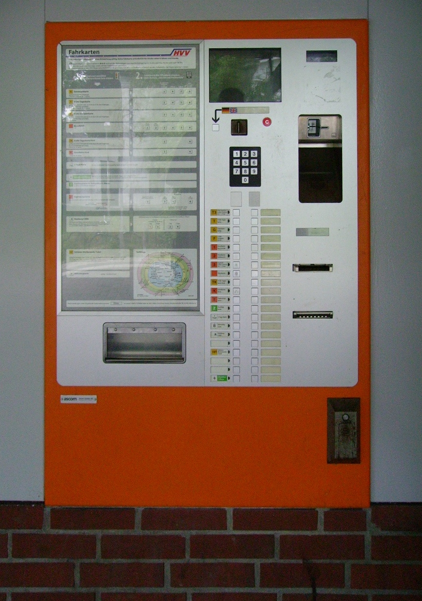 old Ticket machine Hamburger Verkehrsverbund (Location: Othmarschen railway station)